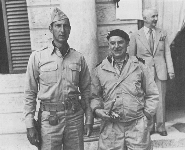 GLieutenat Generals Mark W, Clark (left) and Alphonse Juin (right) in Sienna, July 1944